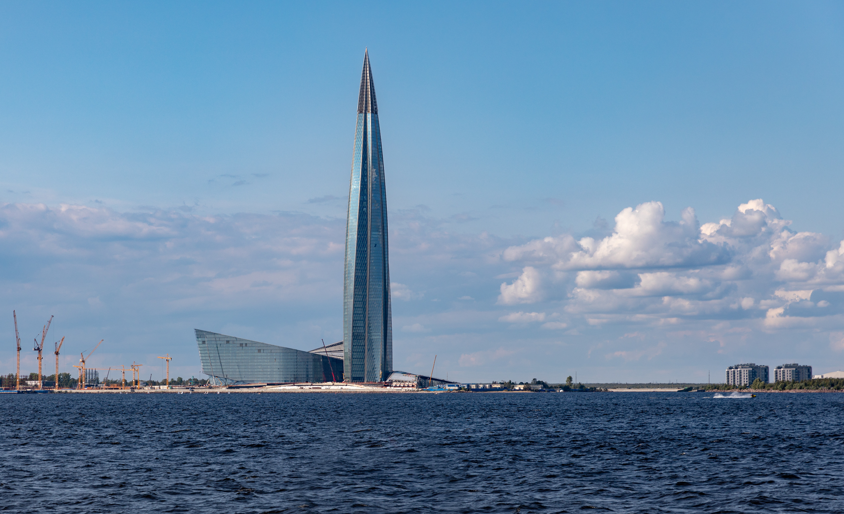 Lakhta Center Lakhta Center The Lakhta Center is the tallest building in Russia, the tallest building in Europe, and the 13th-tallest building in the world, 462 metres, 87 floors. The building was designed by Tony Kettle. The Lakhta Center is intended to become the new headquarters of Russian energy company Gazprom. (Wikipedia)